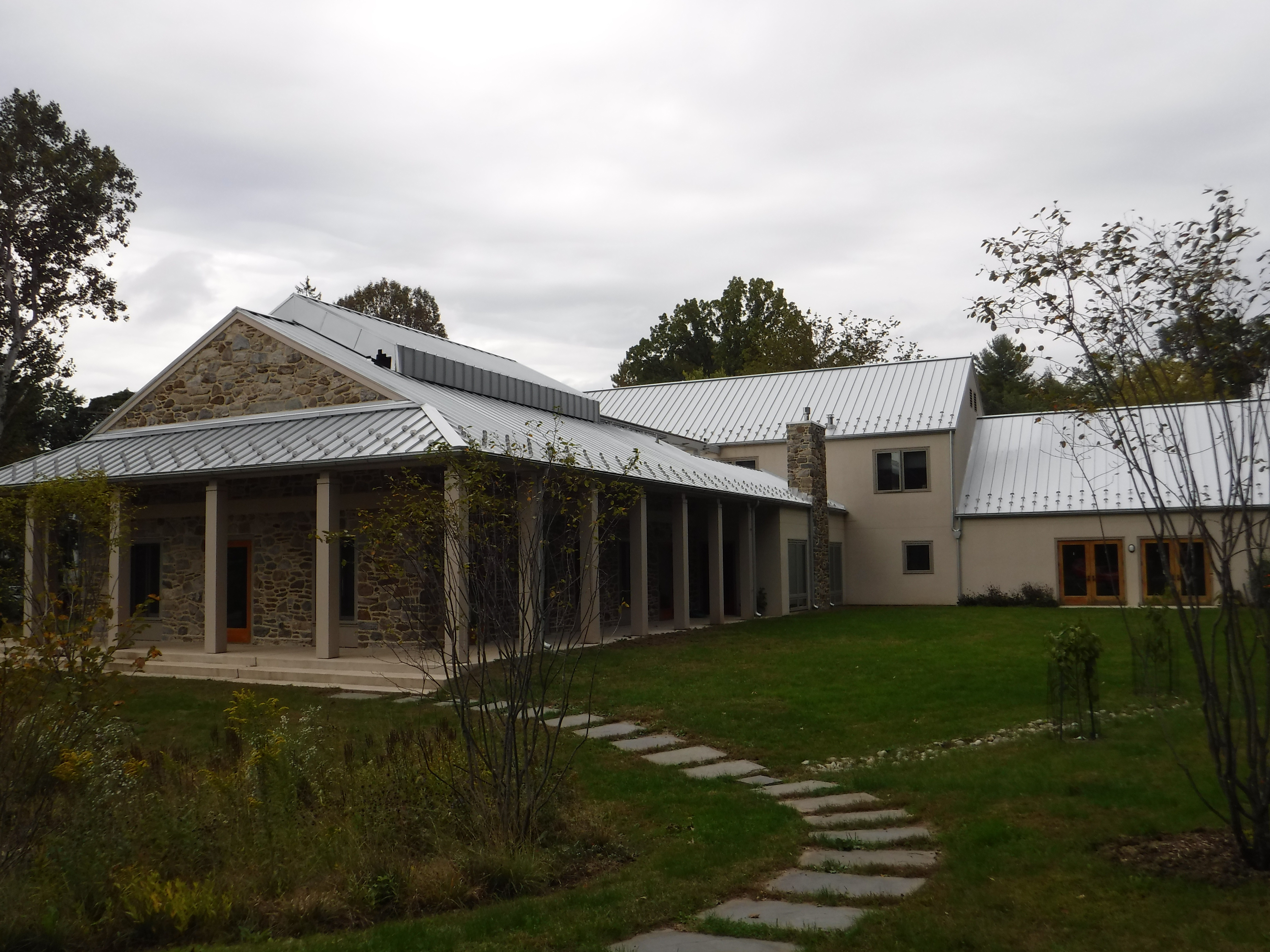 Chestnut Hill Friends Meeting House, 20 Mermaid Lane, Philadelphia, PA